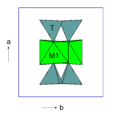 Pyroxene structure: Sandwich like structural unit of SiO4 - MO6 - SiO4 (I-beams)